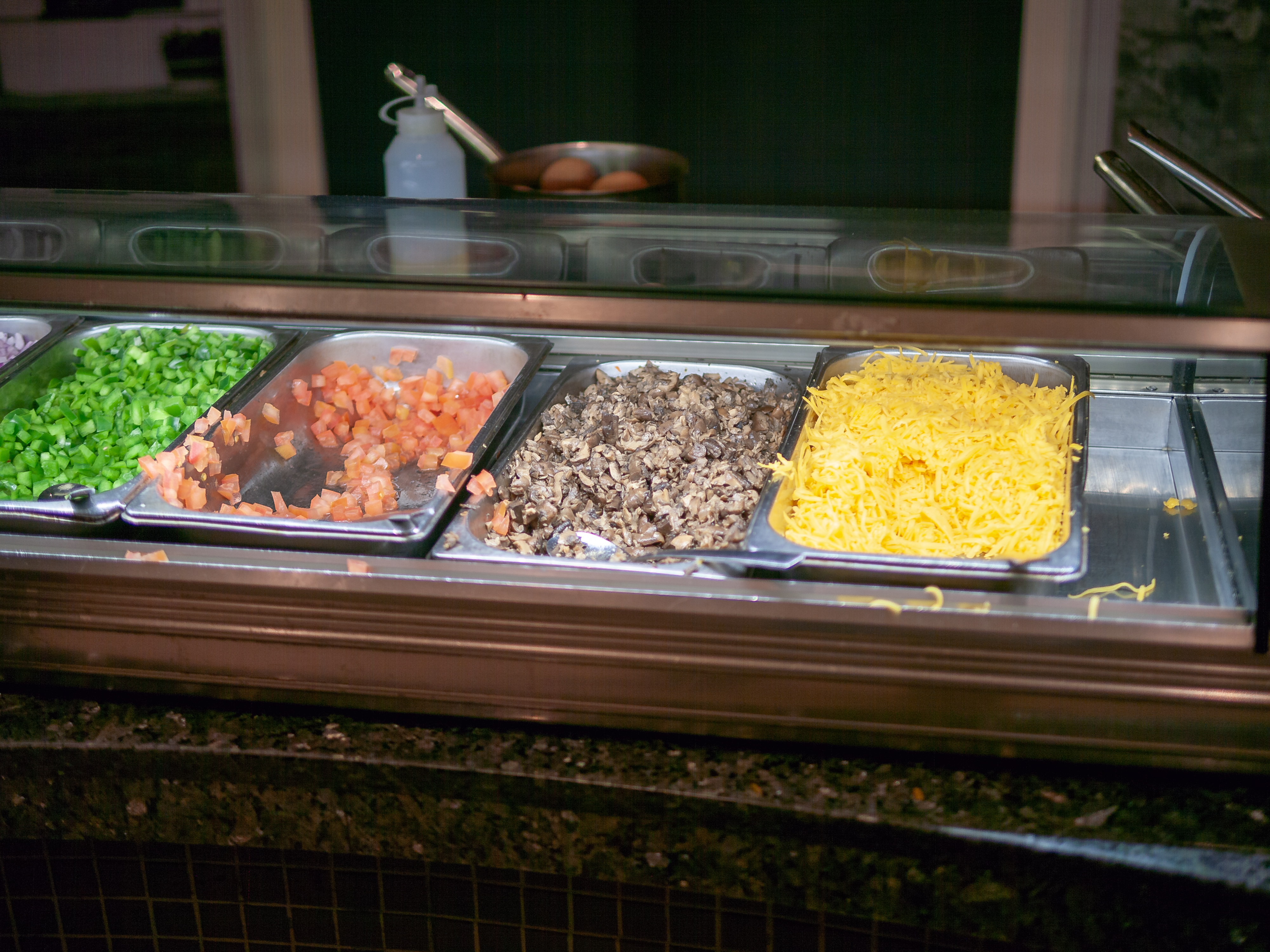 Diced vegetables, mushrooms and cheese at a hotel breakfast buffet, Cape Town